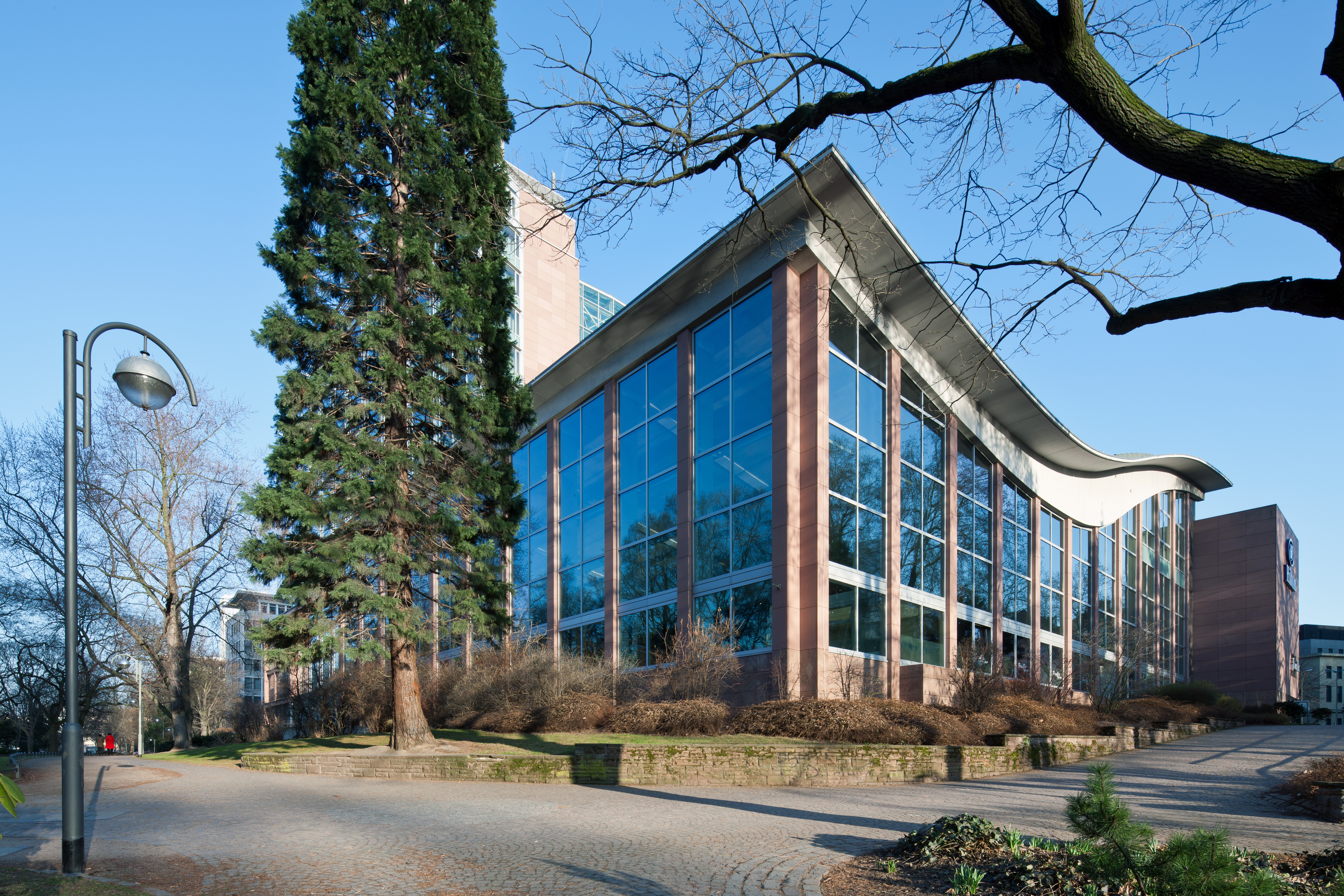 Frankfurt on the Main: Former Stadtbad Mitte (Community Swimming Pool Central) as seen from the northwest